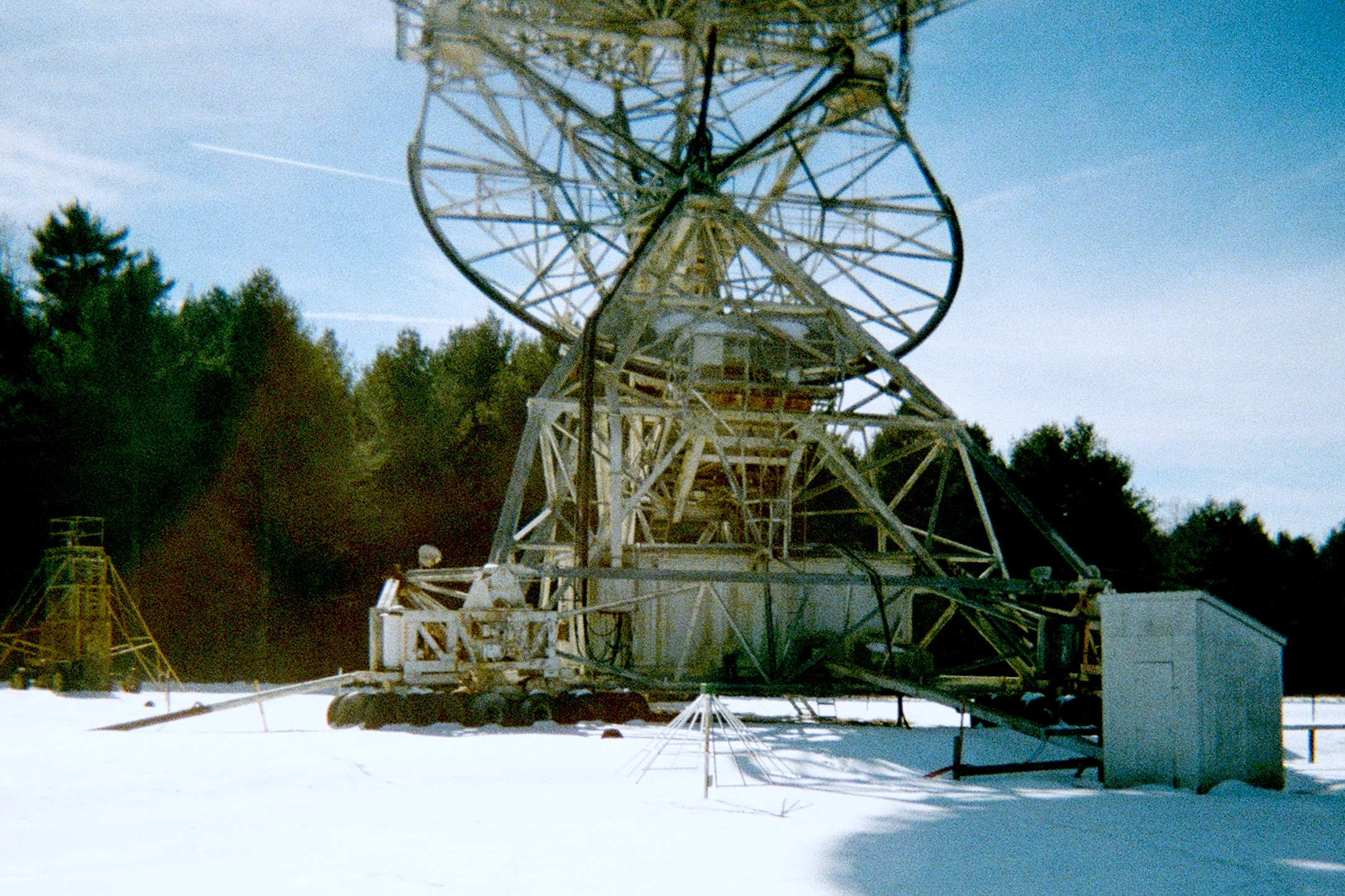 85-3 Radio Telescope at Green Bank site of National Radio Astronomy Observatory (NRAO)